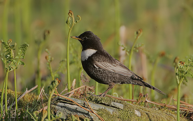 A male Ring Ouzel photographed in Glenturret, Scotland.